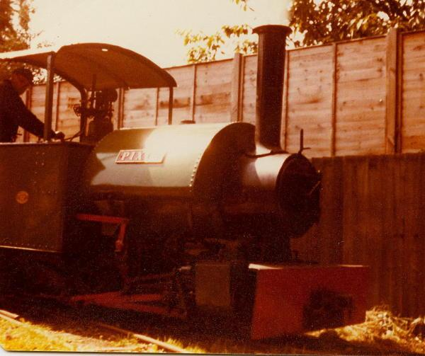 Bagnall locomotive Pixie at Cadeby Author: Gwernol